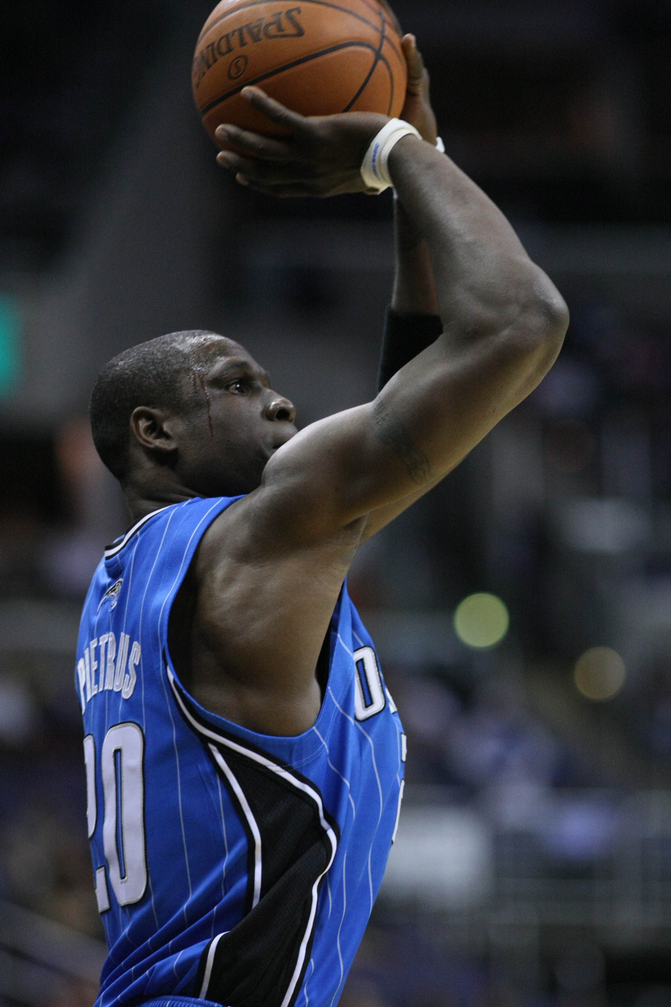 Mickaël Piétrus at the Washington Wizards v/s Orlando Magic game on 27 November 2008